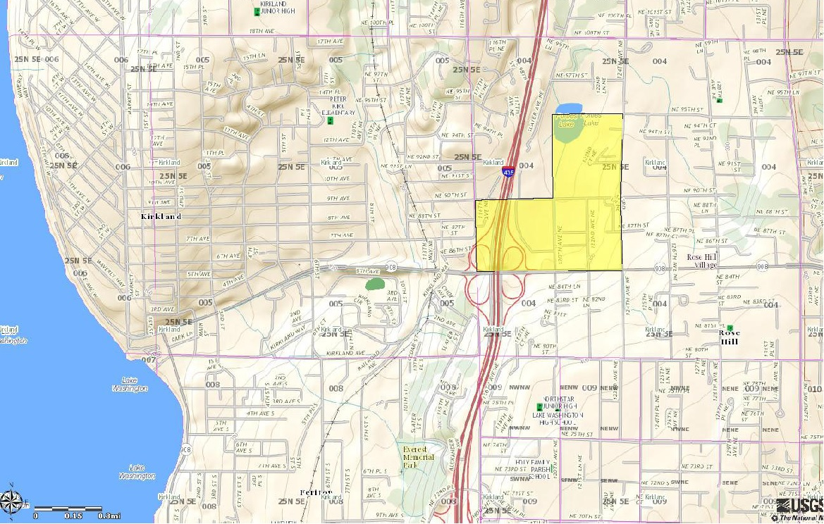 Locator map of the Kirkland Steel Mill built in Kirkland, Washington 1890-1892. Built by me using the USGS National Map Viewer polygon annotation tool.